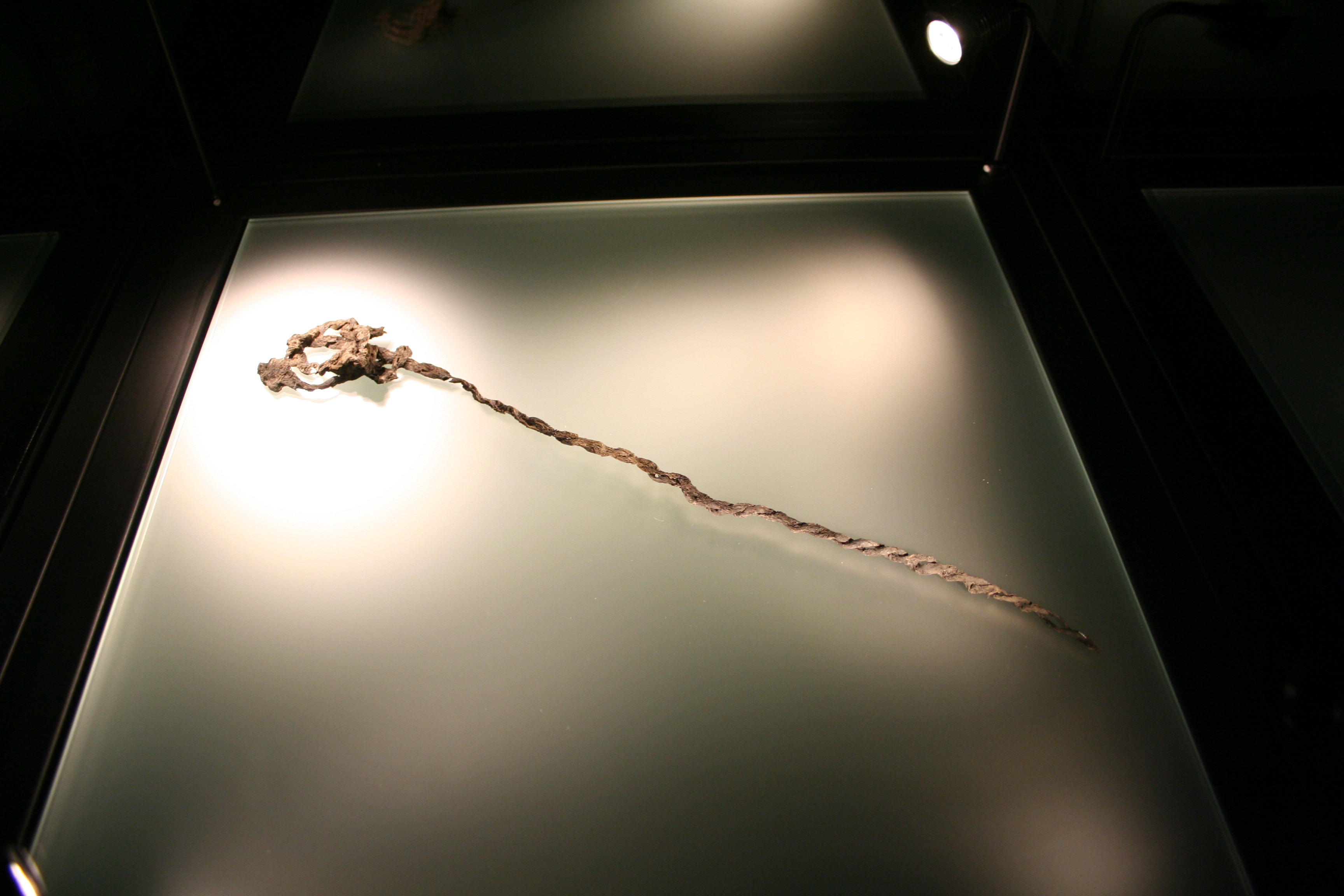 Cord, found inside a Linear Pottery culture well at Scheuditz-Altscherbitz